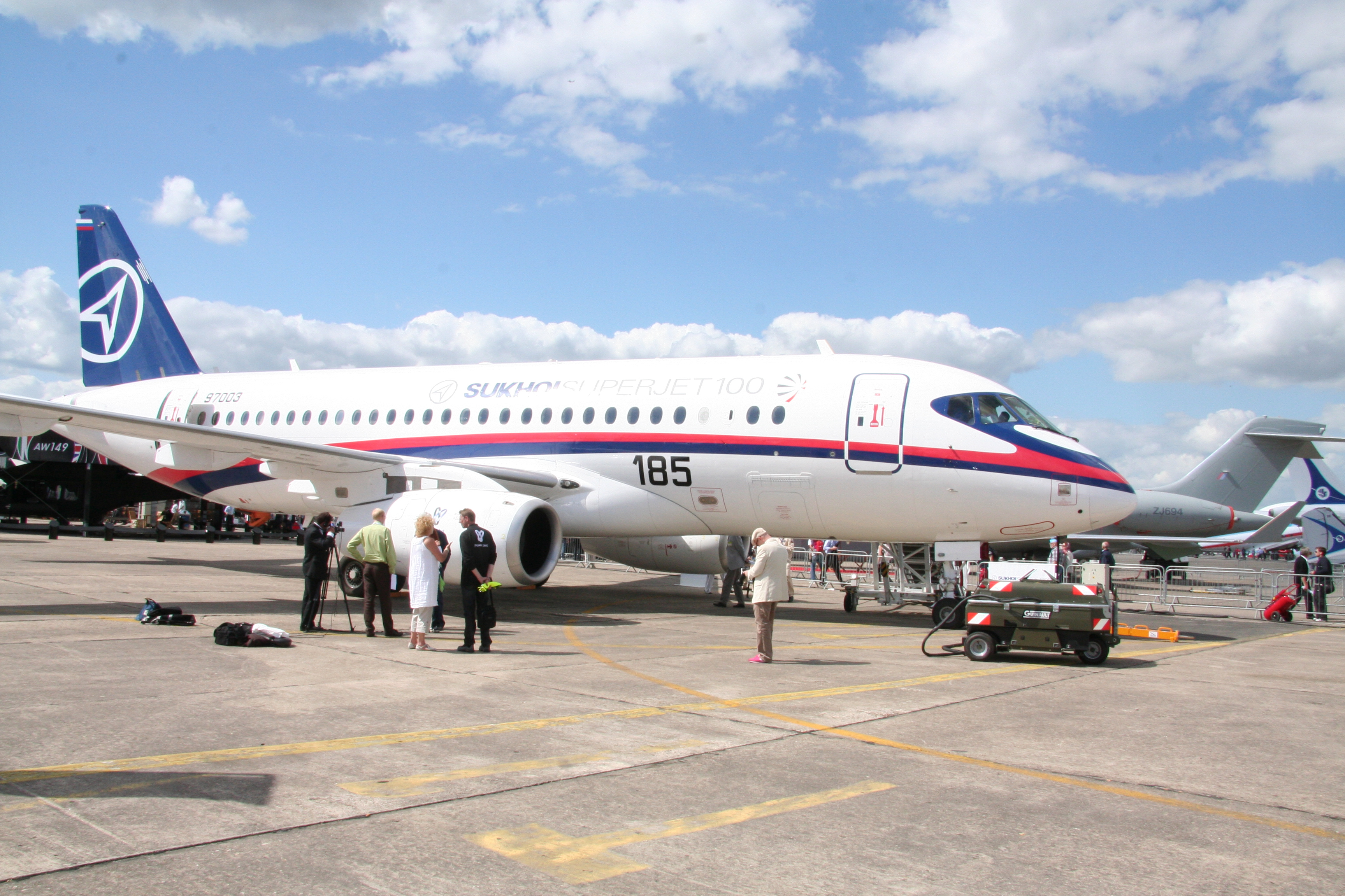 Sukhoi Superjet 100 - Paris Air Show 2009